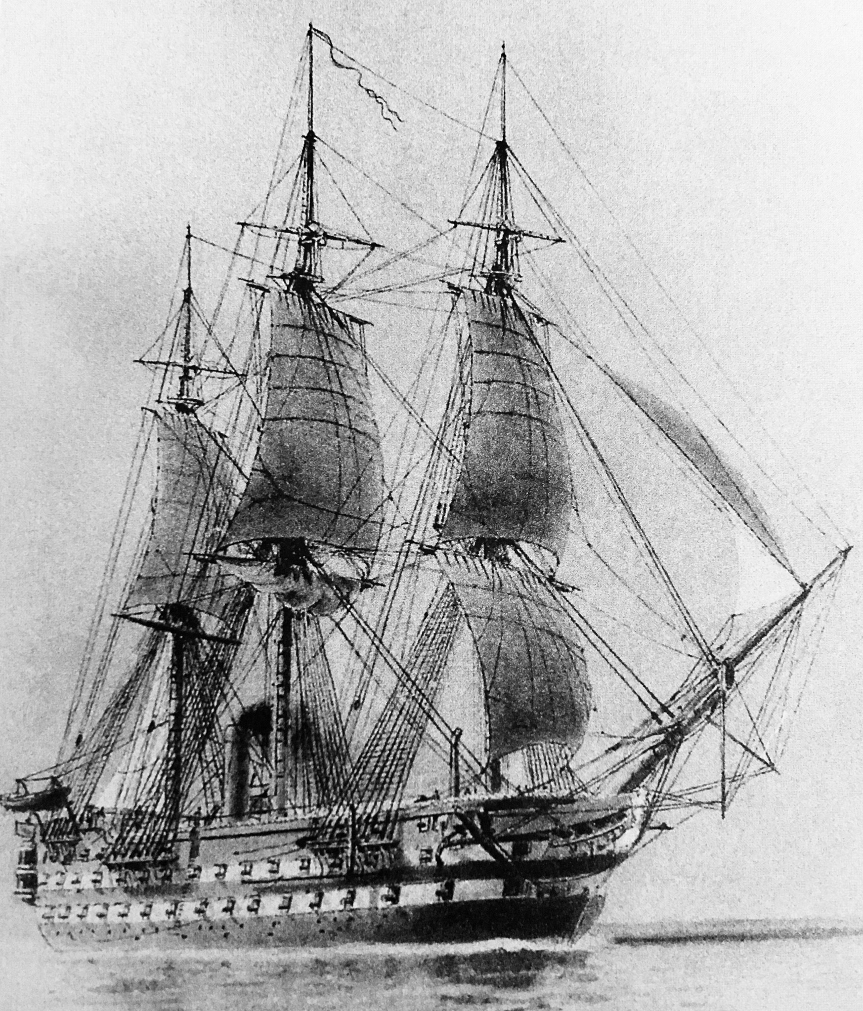 Swedish steam battleship Stockholm.